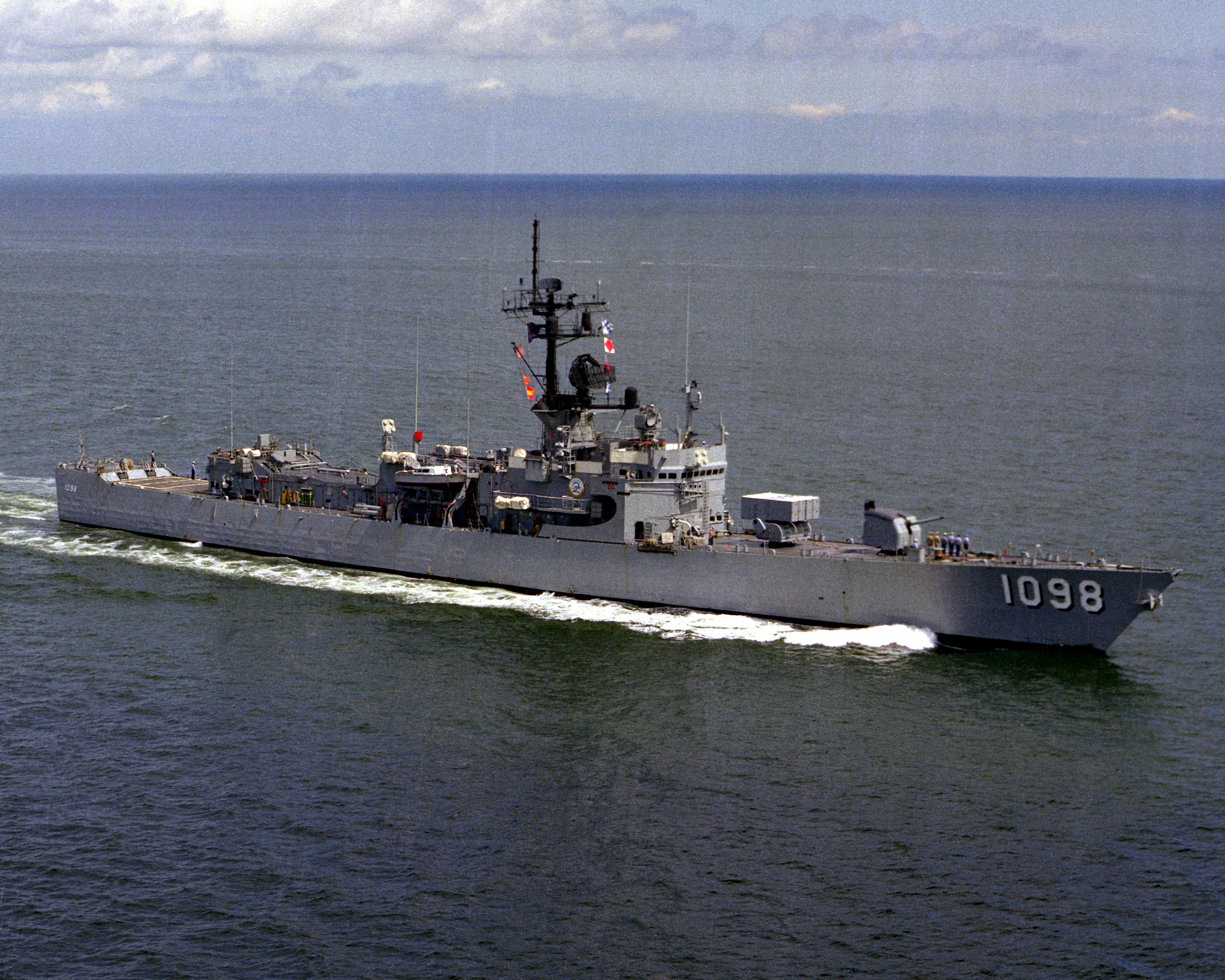 An aerial starboard bow view of the U.S. Navy frigate USS Glover (FF-1098) underway on 1 June 1982.